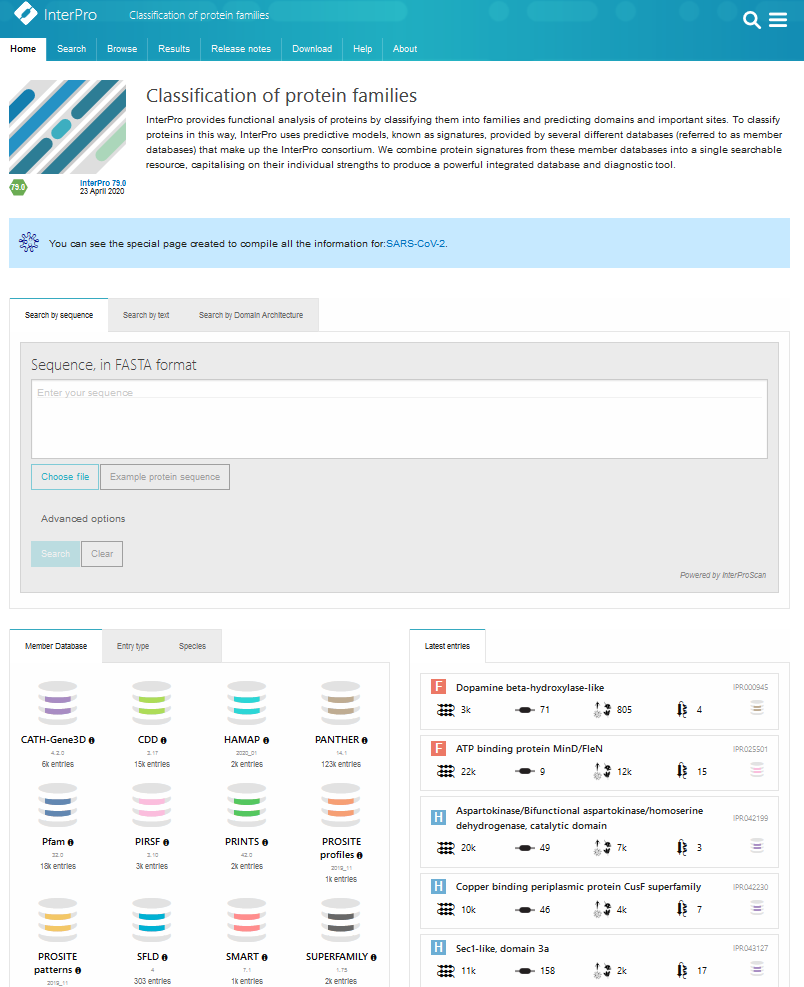 Interpro's website